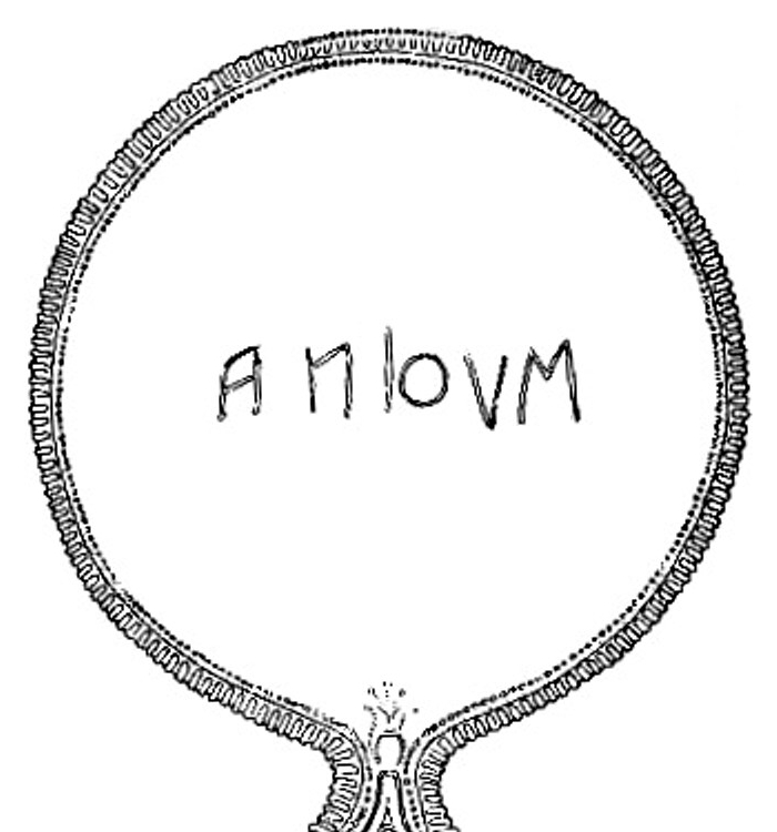 Etruscan mirror from Bolsena in the Metropolitan Museum of Art with the inscription SUTHINA, «for the grave», scratched across the reflecting surface. On the reverse is the representation of Prumathe (Prometheus).